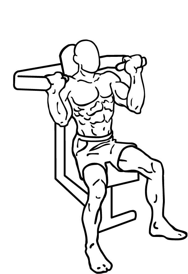 an exercise of shoulder